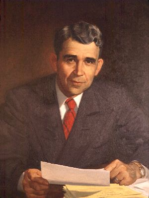 Photo of former Louisiana Governor Robert F. Kennon.